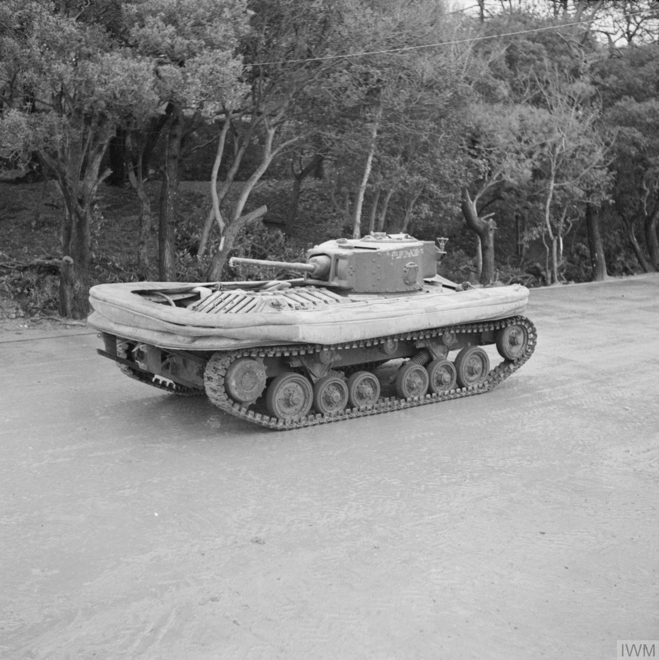 Valentine DD tank with screen lowered, 79th Armoured Division School, Gosport, 14 January 1944.